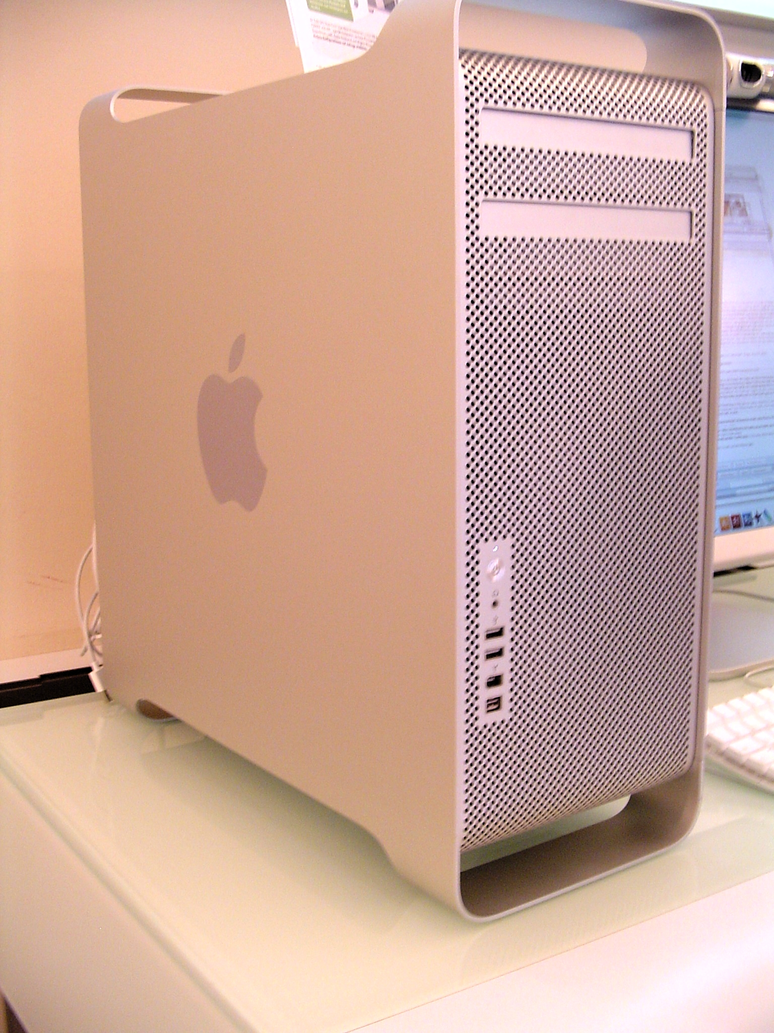 Profile of Mac Pro